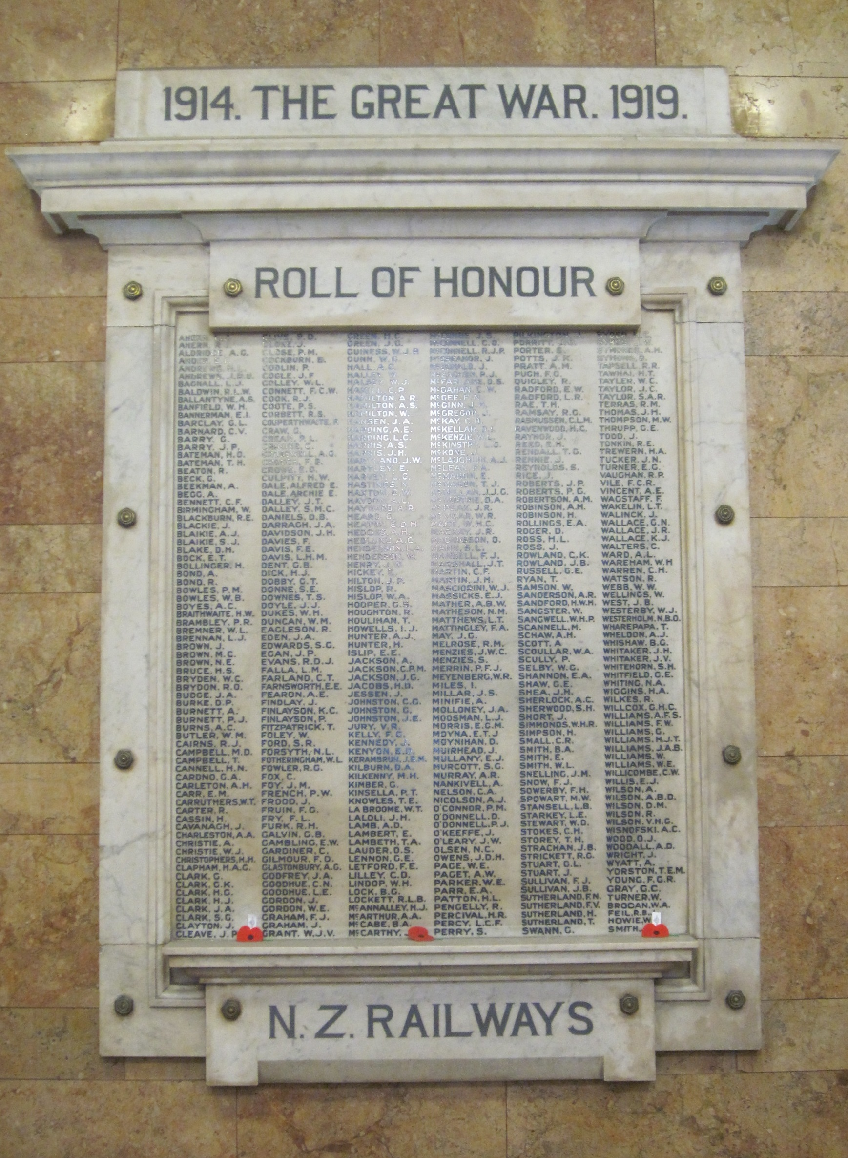 New Zealand Railways WWI Roll of Honour, listing members of the department who died during the War. Wellington Railway Station, Wellington, New Zealand.